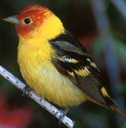 Western Tanager- Western Tanager from US FWS